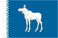 Flag of Yoshkar-Ola (27.02.2006 — 26.12.2006), Mari El, Russia